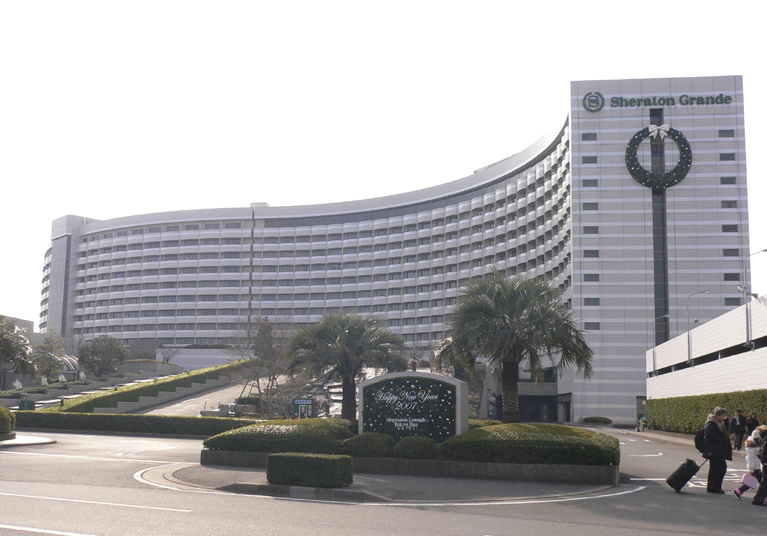 Sheraton Grande Tokyo Bay Hotel